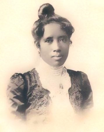 Portrait of Ranavalona III, in Algeria, taken by J. Geiser.